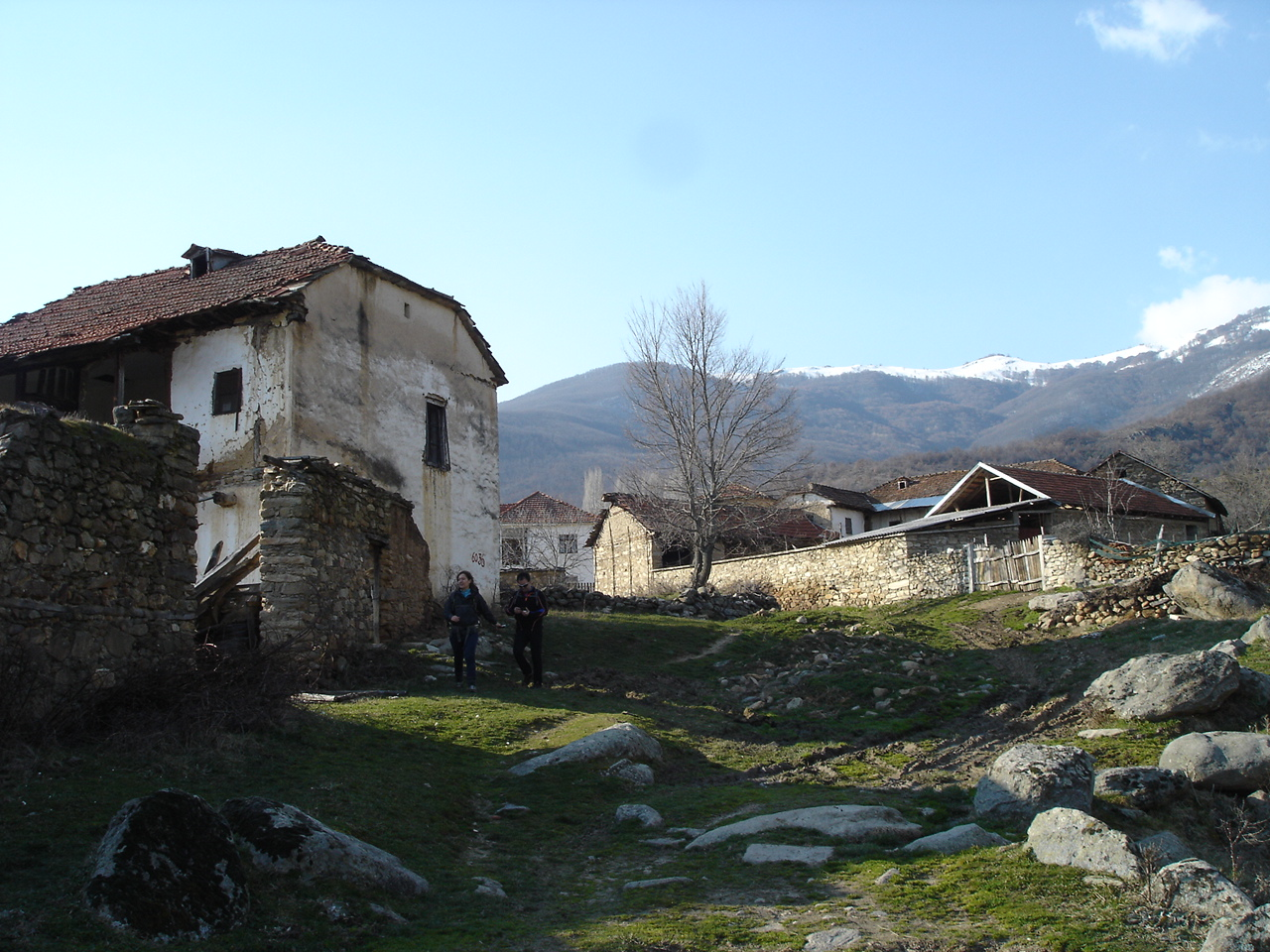 village of Dolgaec in Dolneni Municipality, Macedonia